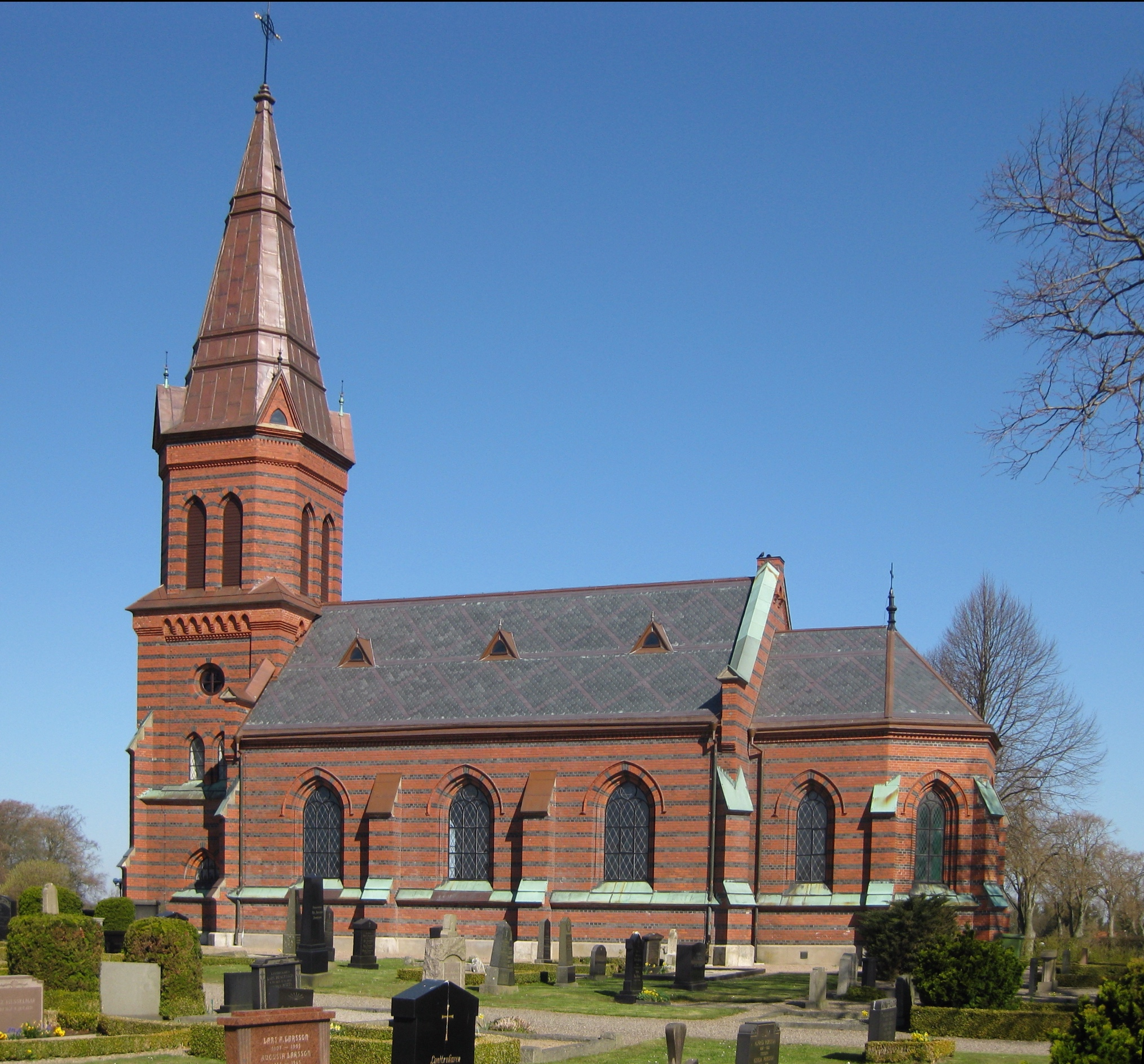 Öja church in Skåne, Sweden